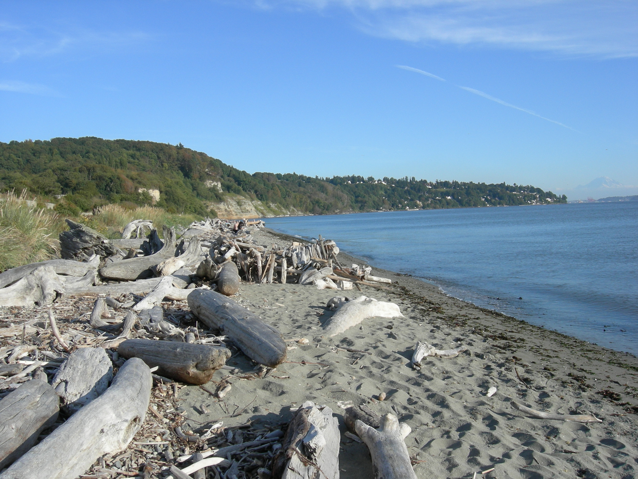 Looking roughly southeast from West Point along the south beach of Discovery Park, Seattle, Washington, USA. Beyond the beach are sand cliffs of the park itself, then houses further south on Magnolia. The body of water is the northwest corner of Elliott Bay, part of Puget Sound.